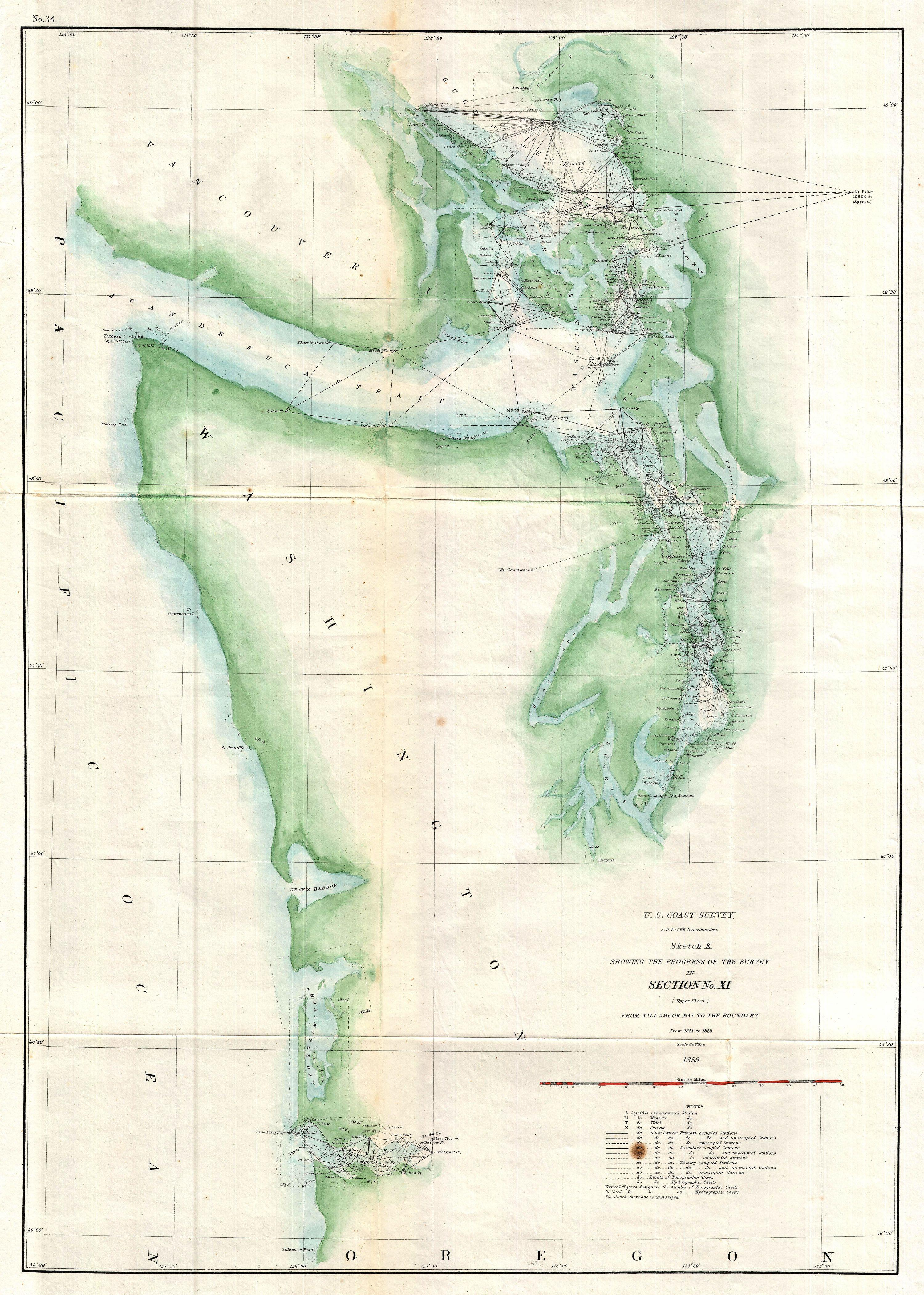 A delicately hand-colored 1859 US Costal Survey map or triangulation chart of Washington State from Tillamook Head to Vancouver Island, including Juan De Fuca Strait, the Puget Sound, Olympia, and Seattle, with numerous triangulation lines. Produced under the supervision of A. D. Bache, one of the most influential directors of the U. S. Coast Survey.